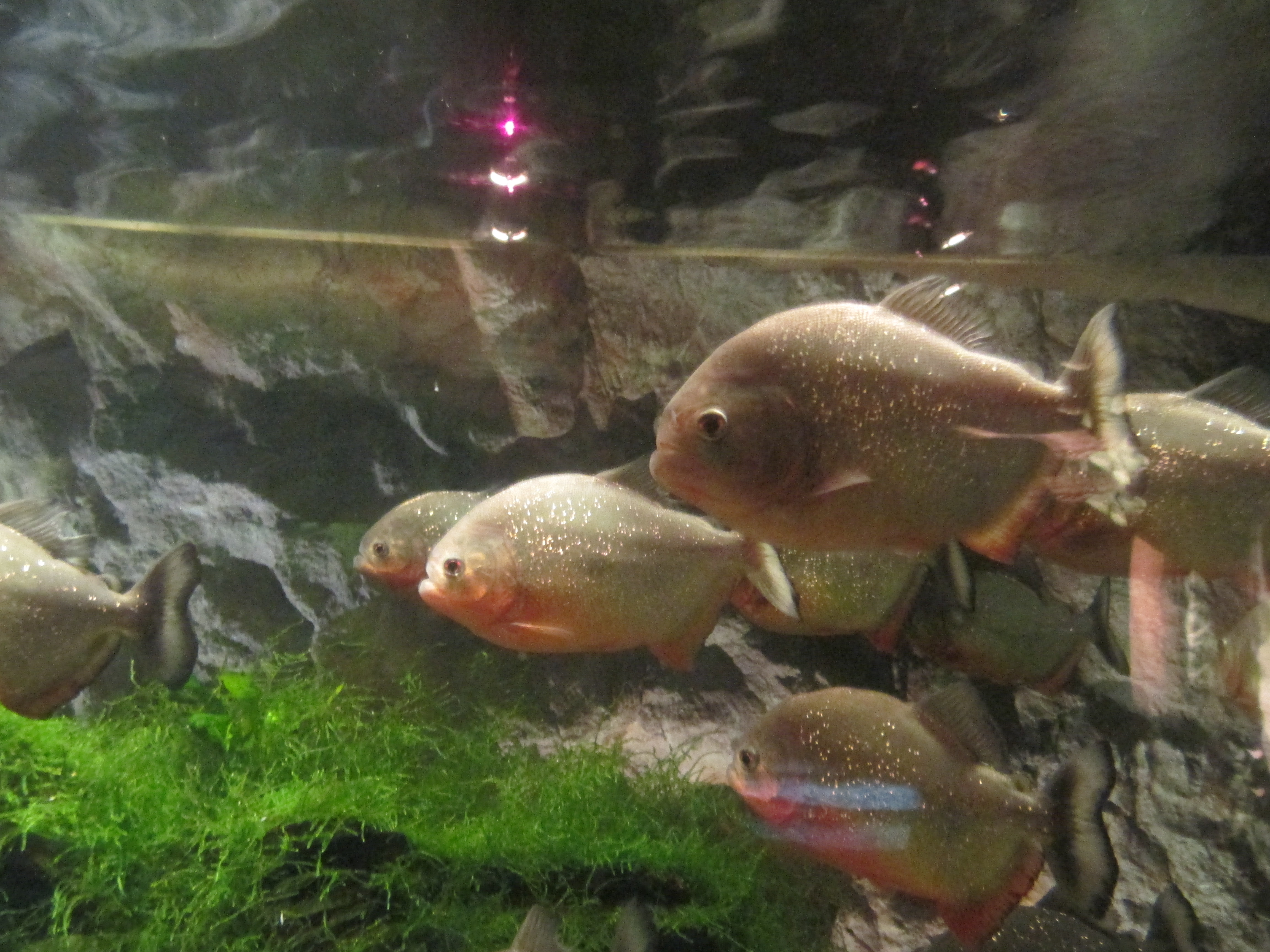 Piranha fish in Eilat